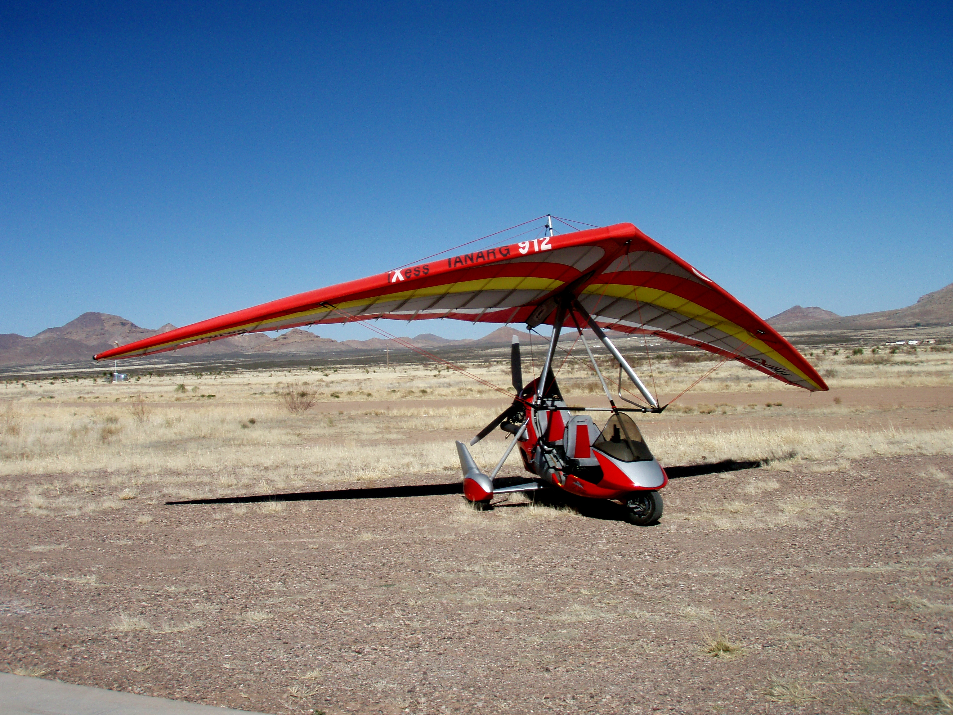 Air Creation Tanarg, a weight shift control light sport aircraft.